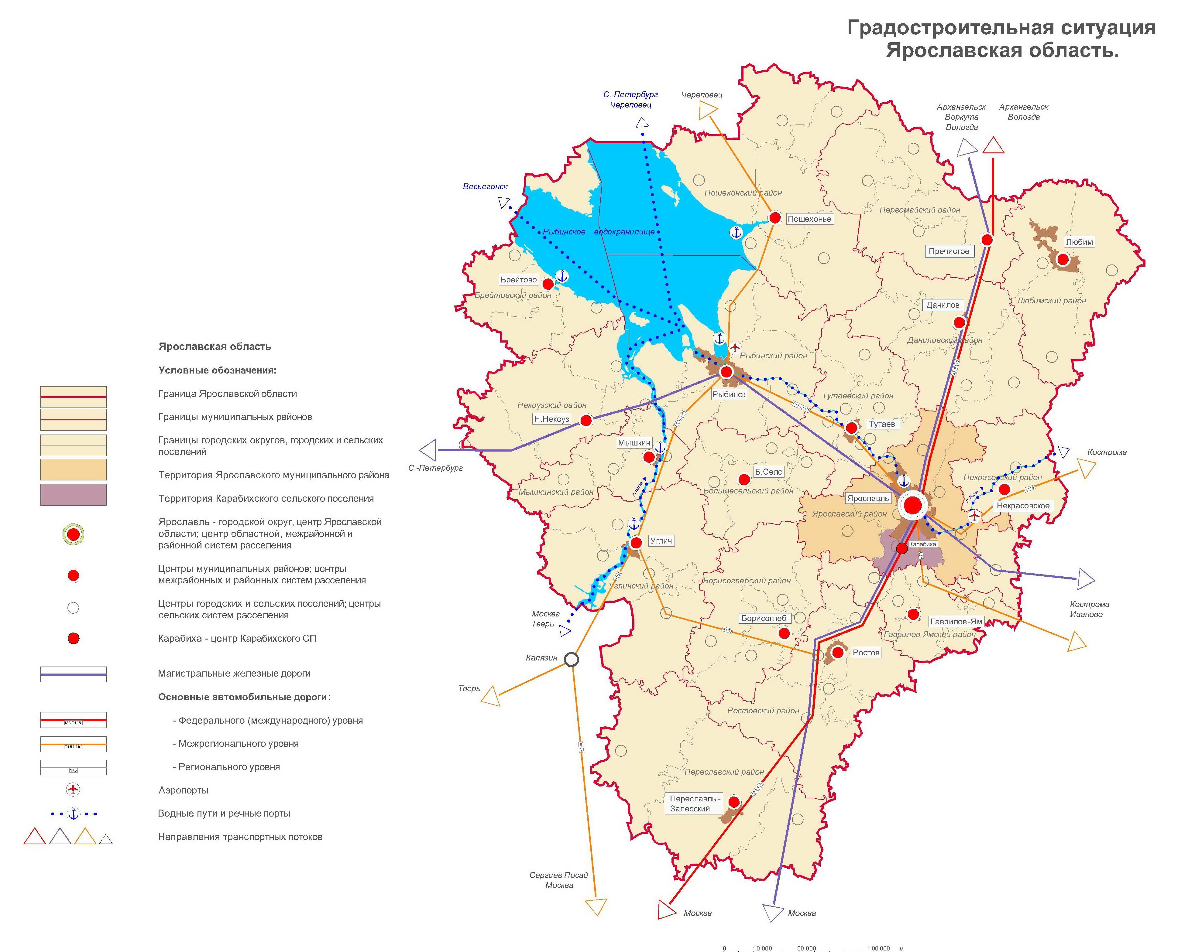 Yaroslavl Oblast. Municipalities and transport. 2010.